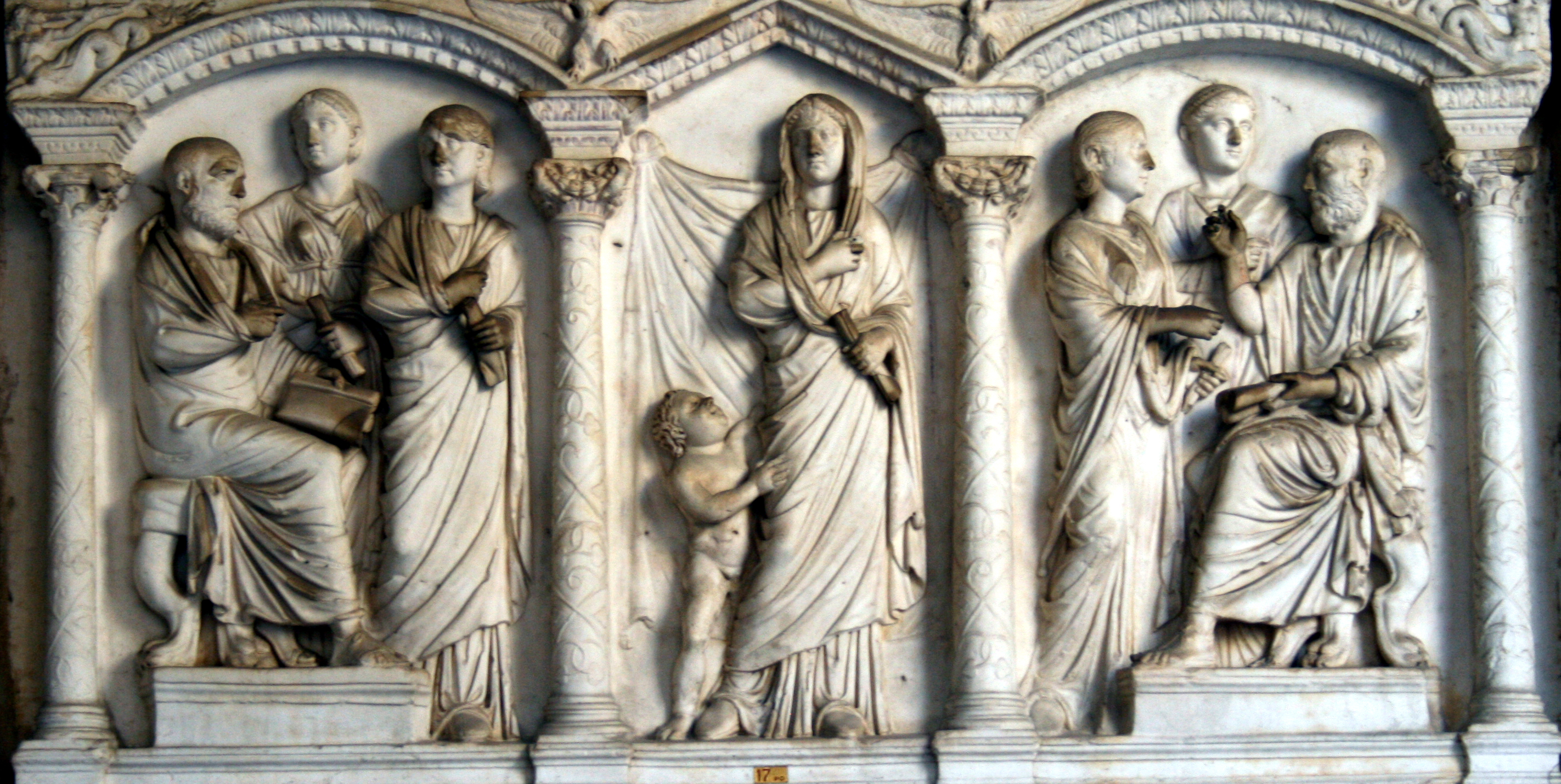 sarcophag of a learned woman